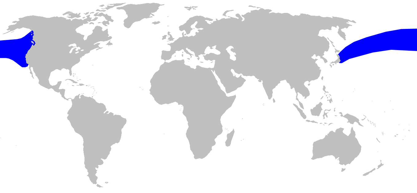 Distribution of Mesoplodon carlhubbsi